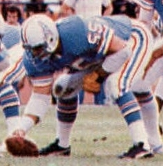 Houston Oilers center Carl Mauck pictured in an offensive play during the 1978 AFC Wild Card game.